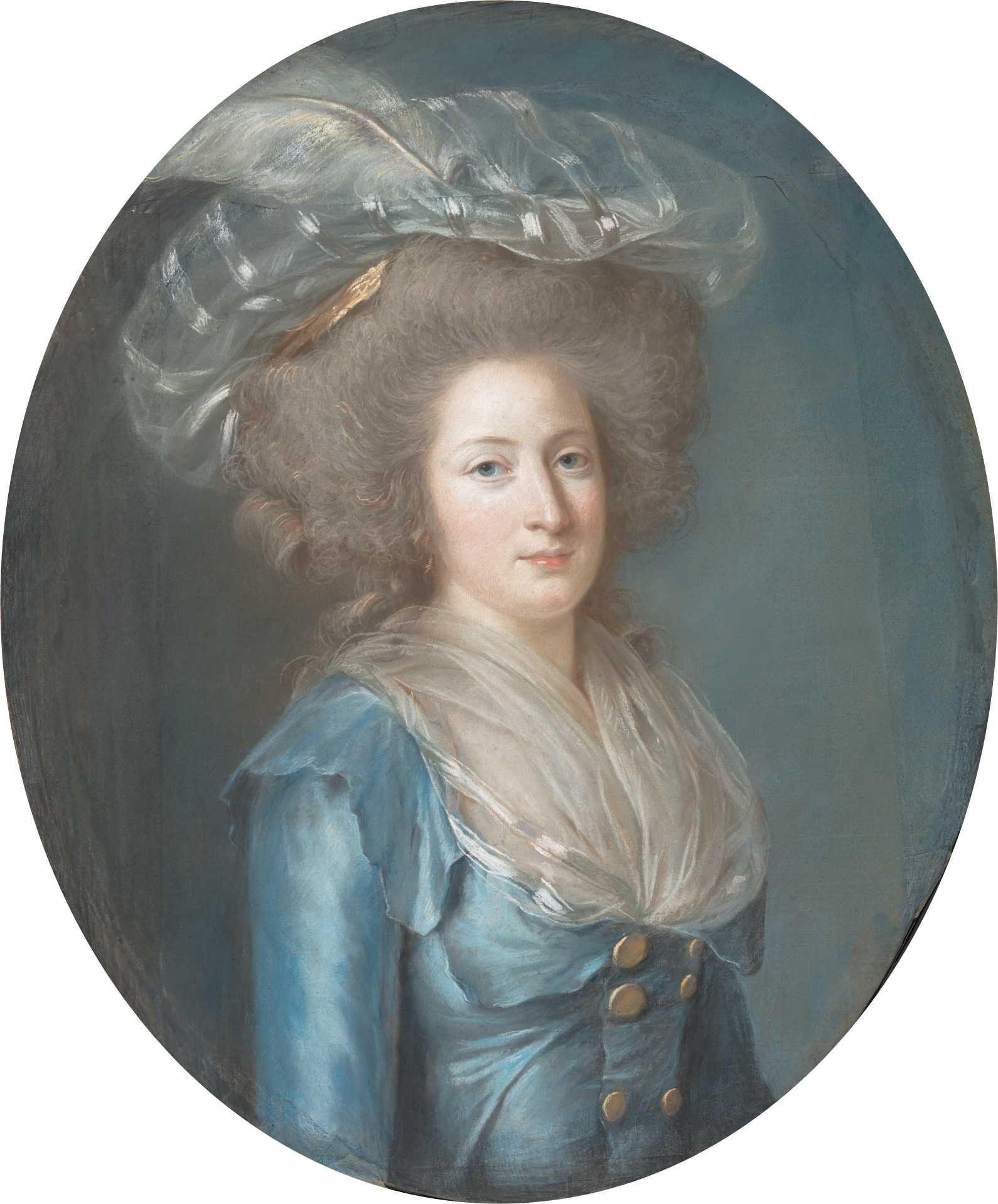 Princess Élisabeth of France (1764-1794)